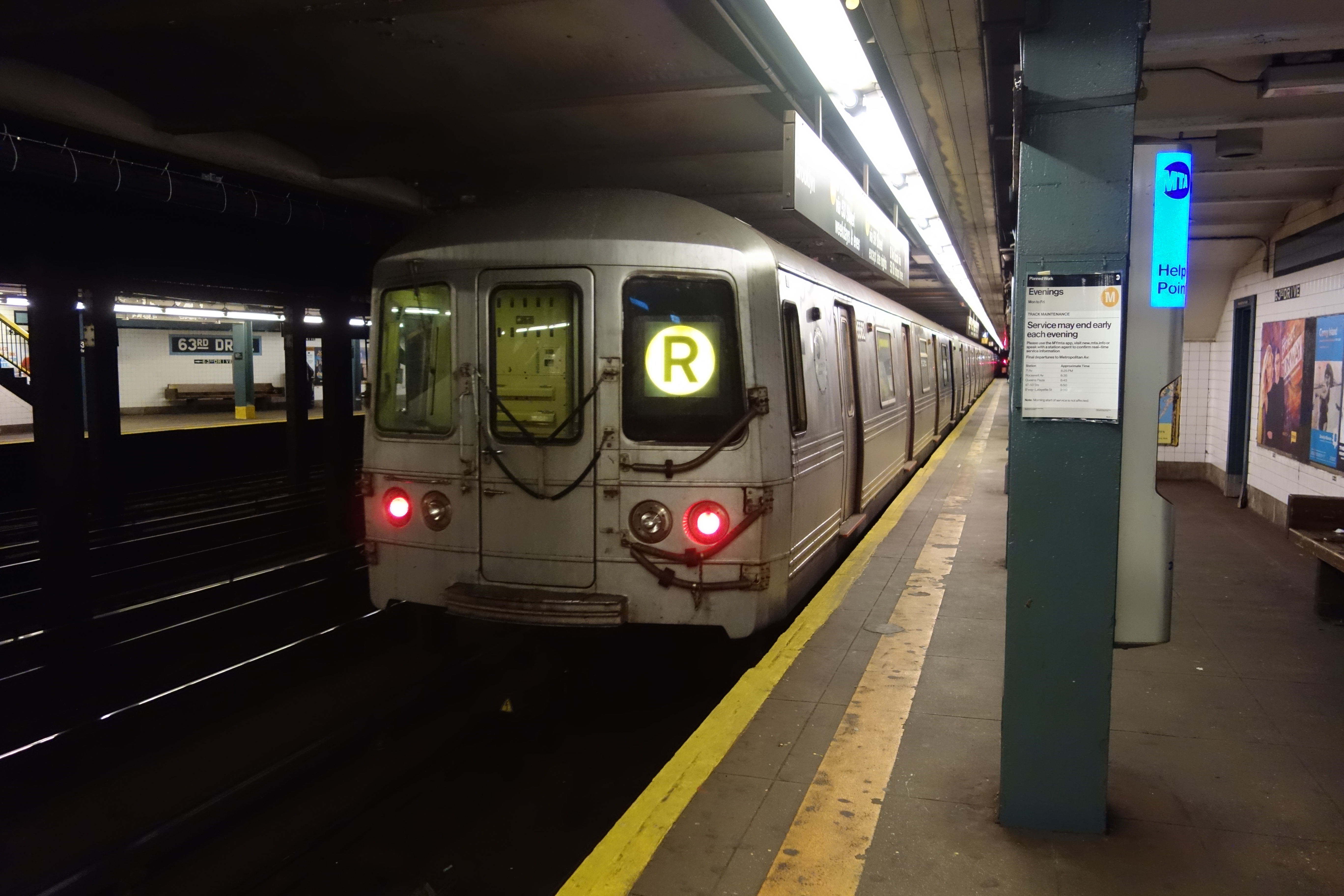 A Bay Ridge–95th Street-bound R local train leaving the Manhattan-bound platform of the 63rd Drive – Rego Park IND station, under Queens Boulevard and 63rd Drive / 63rd Road in Rego Park, Queens.